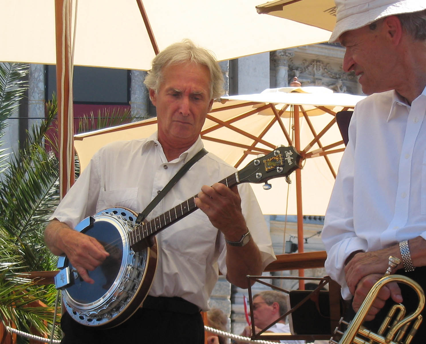 Members of Austrian jazz band Riverside Stompers playing at the Vienna Rathausplatz; 4-string Banjo.